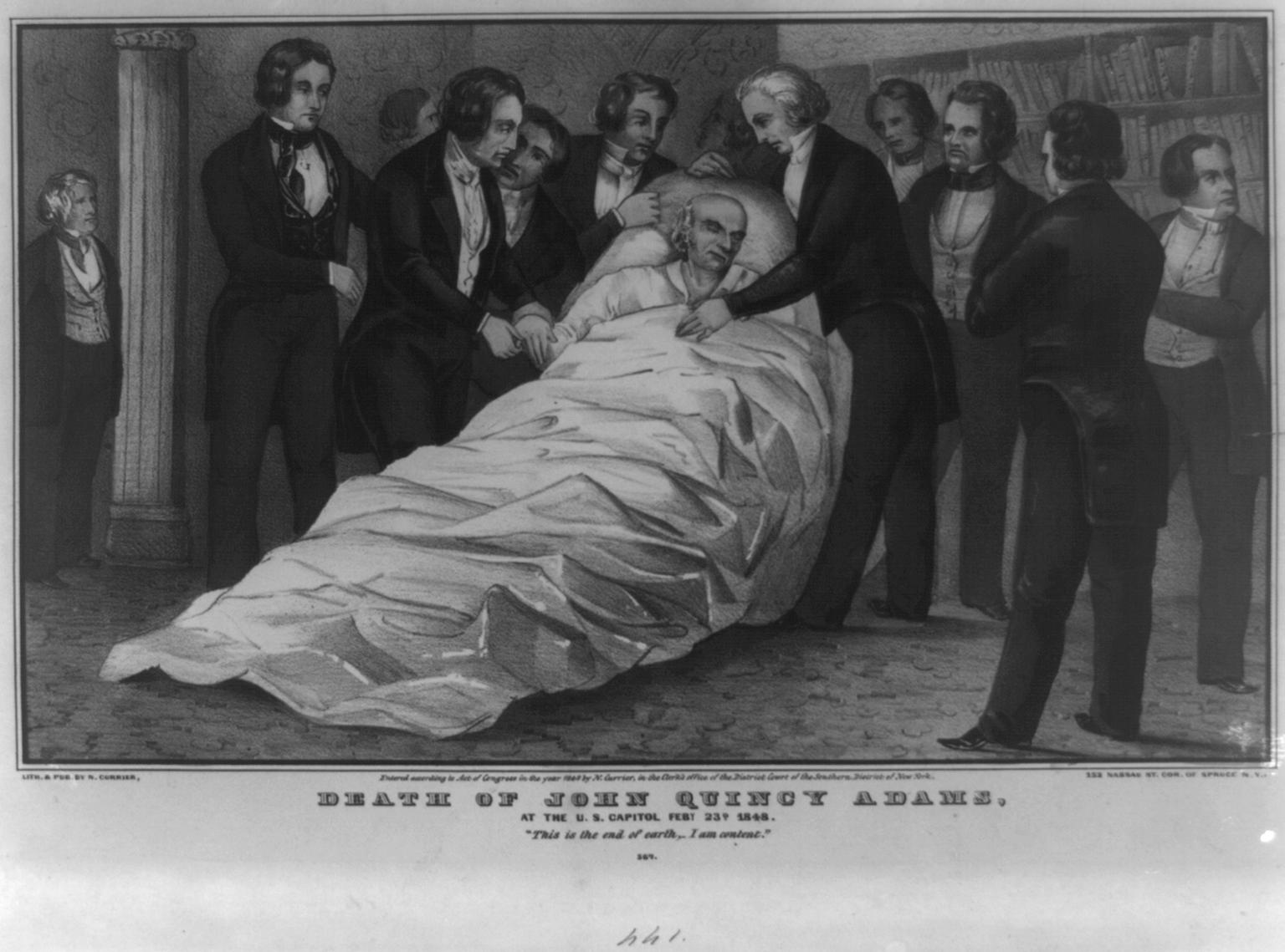 On February 21, 1848, Adams was at his seat in the House Chamber when he voted a loud "no" to a resolution giving thanks to several generals for their service in the Mexican War. A few minutes later he collapsed. Adams was taken into the Rotunda and placed on a sofa in front of the east door in the hope that fresh air would revive him. Seeing no improvement, however, Adams was next taken into the speaker's office where he died two days later. His funeral was held in the House Chamber. One of the honorary pallbearers was a freshman congressman from Illinois, Abraham Lincoln. Print by Currier & Ives.